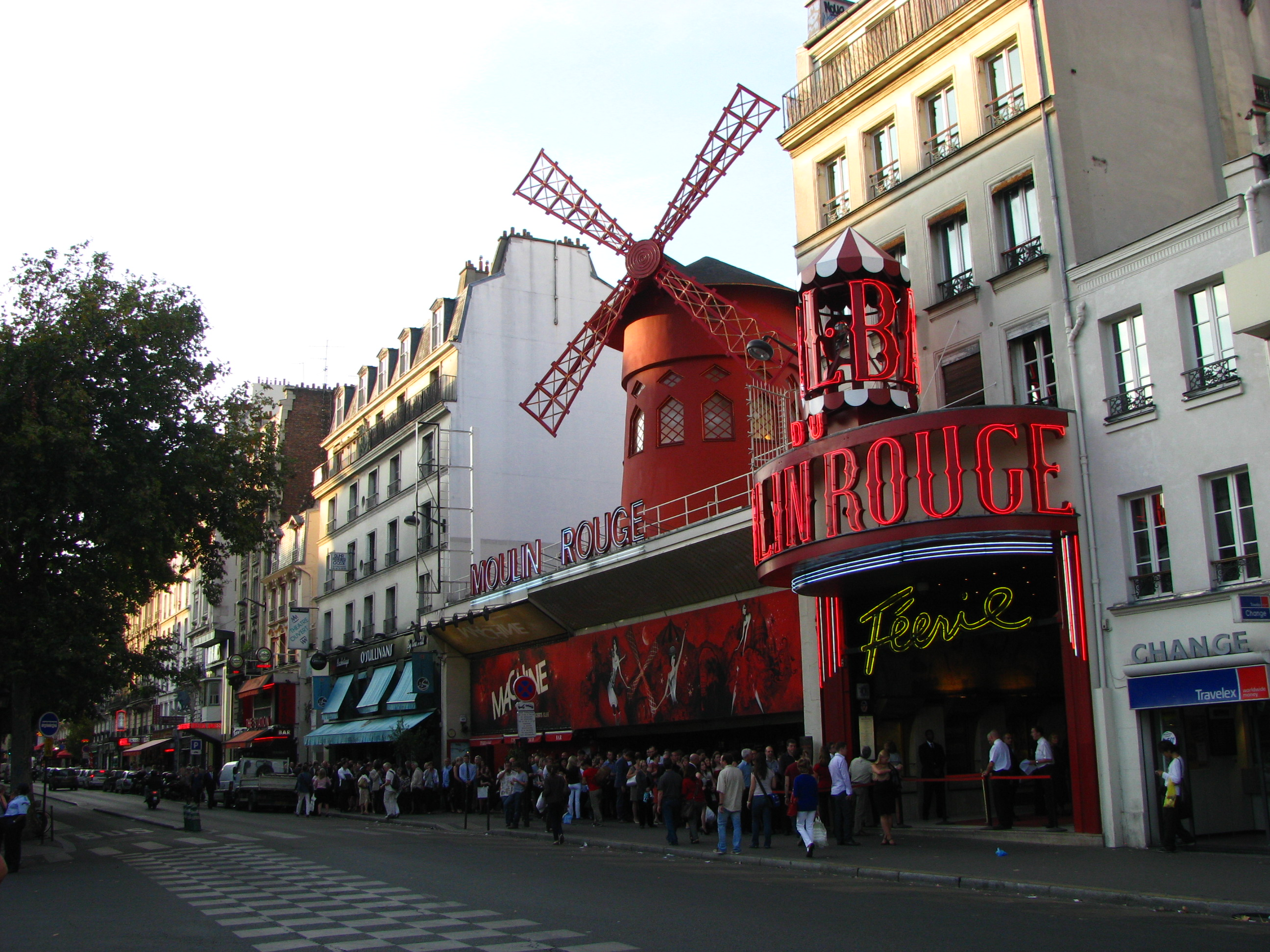 18th arrondissement, Paris, France